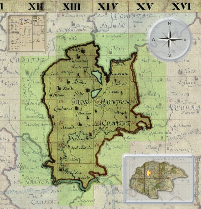 Gros Honter County Josephinische Landesaufnahme, 1782-85.